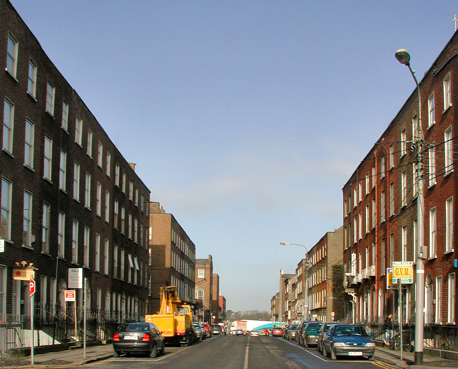 Tithe Seoirseacha i Sraid Maigh Eala, Luimneach. Togtha ag Sean an Scuab sa bhlian 2001.